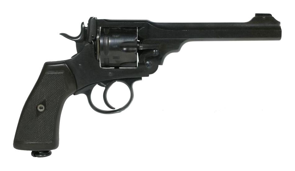 Made by Webley & Scott. Six shot, centre fire, Mk VI. All black, plastic grip handle, barrel is rounded on bottom, angular on top. 'Webley Patent' inscribed above trigger mechanism. Editing Undertaken: background removed, supports removed, Unsharp Mask